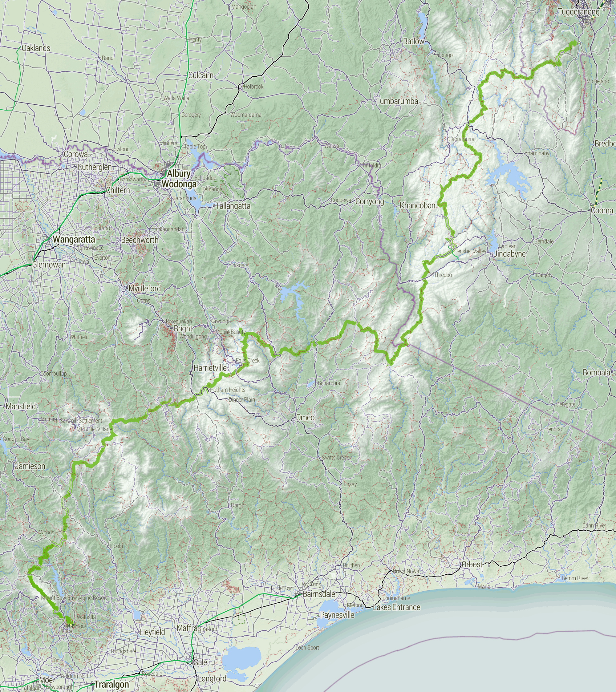 Overview map of the Australian Alps Walking Track. All the data is OpenStreetMap (hence a few small gaps and possible inaccuracies). Cartography by Steve Bennett.